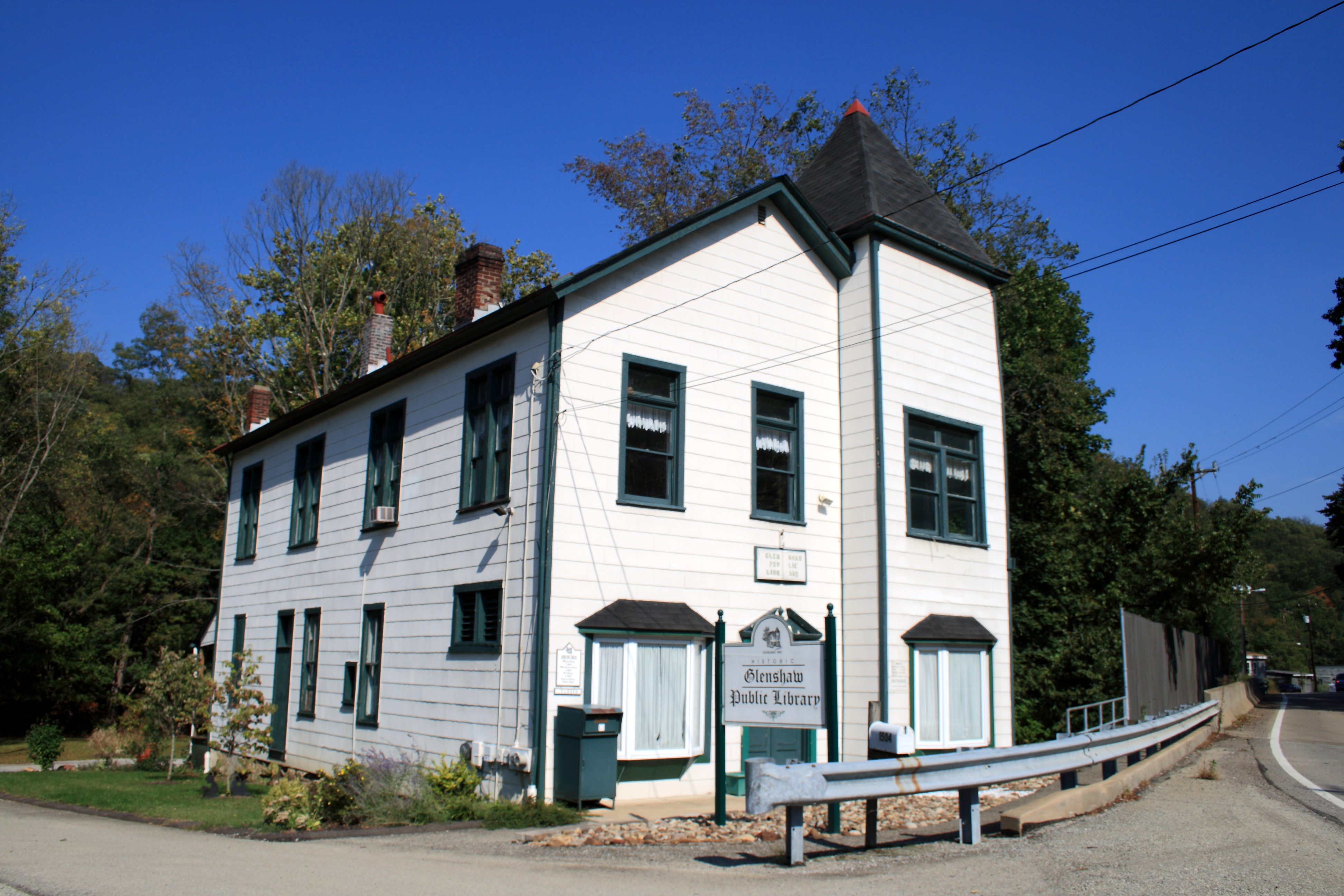 The old building of the Glenshaw Public Library, in Shaler Township, Allegheny County, Pennsylvania